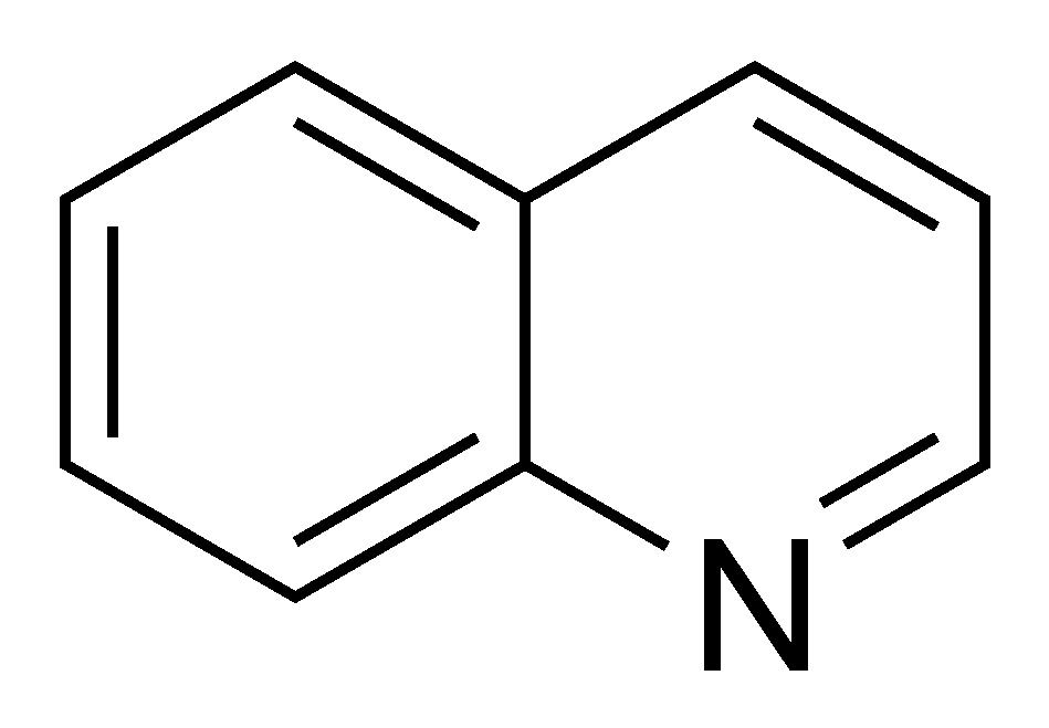 Chemical structure of quinoline, a simple aromatic ring